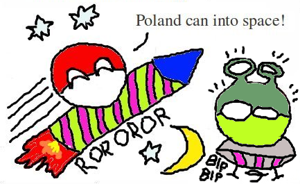 A Polandball cartoon - Poland can into space""